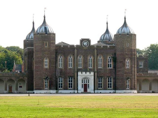 Photograph of the former Royal Military Academy, Woolwich